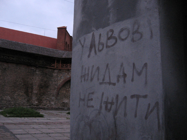 "Yids will not reside in Lviv". An antisemitic graffiti in Ukrainian, Lviv, Staroyevreyska street (Old Jewish street), in a former medieval Jewish ghetto in Lviv